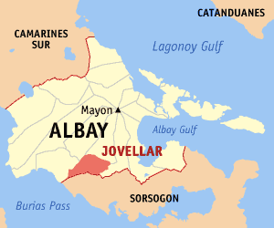 Locator map of Jovellar in Albay, Philippines.